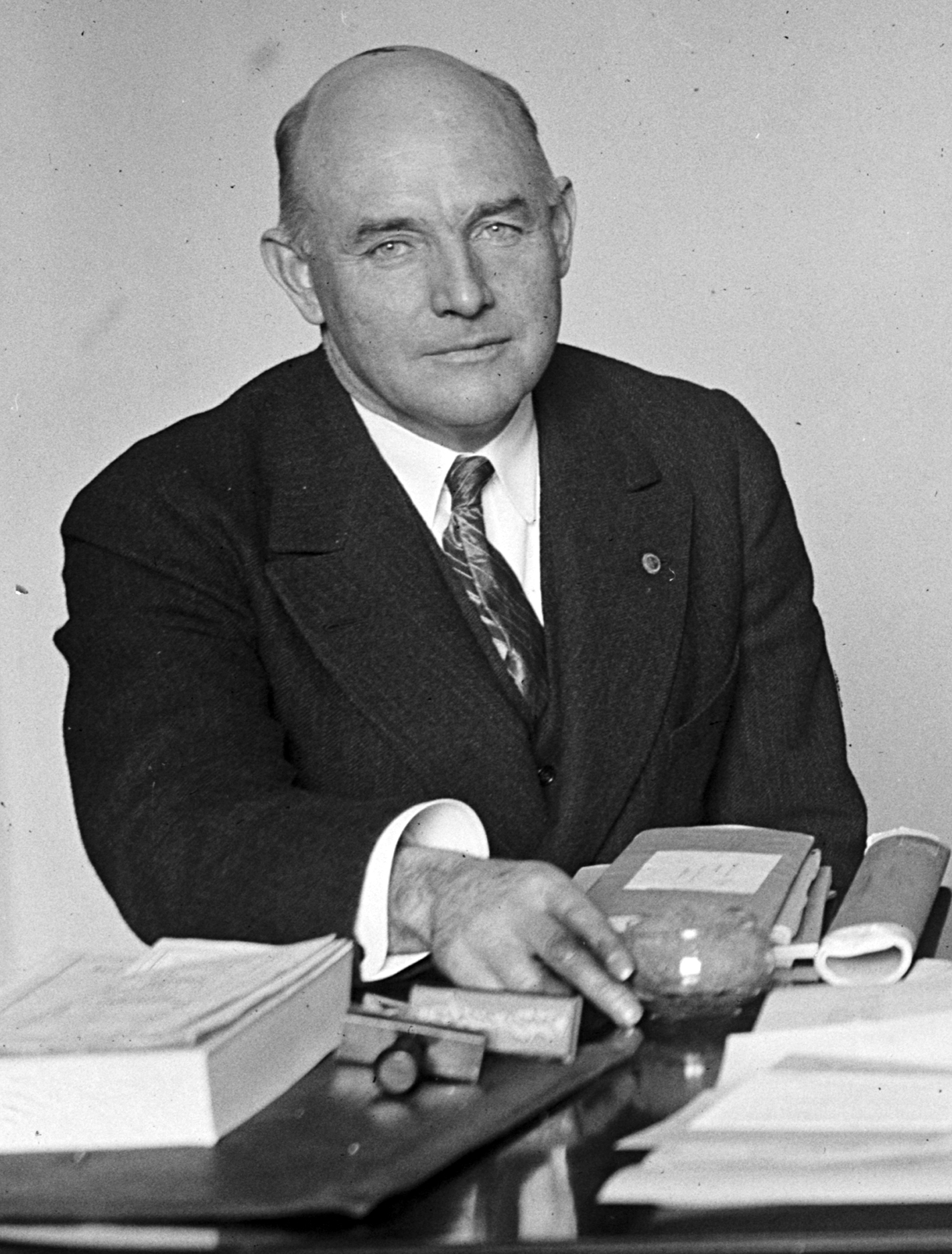 William R. Coyle, US Representative from Pennsylvania